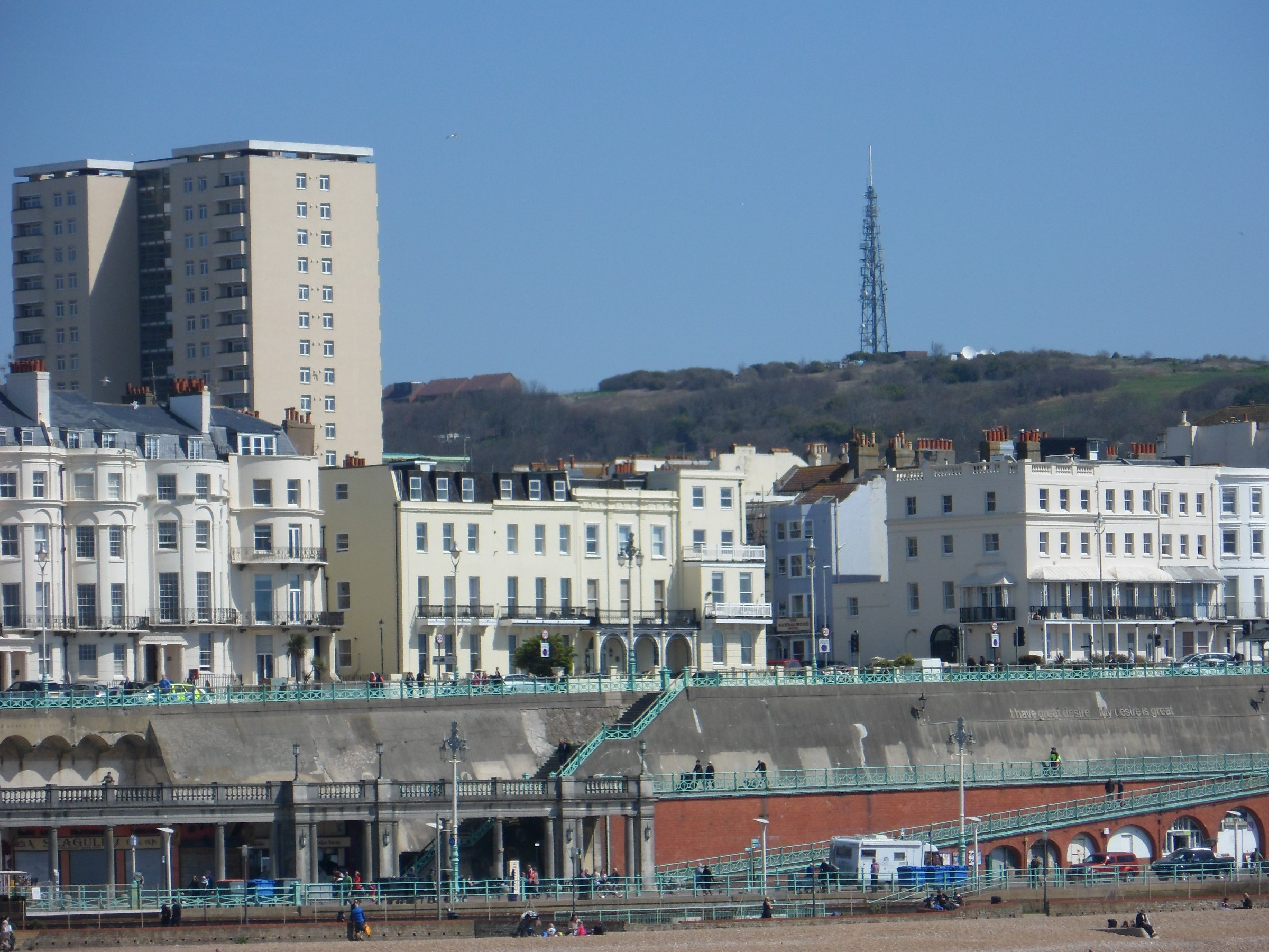 A view from the Palace Pier of the Whitehawk Hill Transmitting Station, Whitehawk Hill, City of Brighton and Hove, England. This is used for the transmission of various television and radio stations. There was a telegraph station at this very high point from the early 19th century. (The buildings in the foreground are 42 to 53 Marine Parade; the road with the blue building is Lower Rock Gardens; and the block of flats is Hereford Court.)